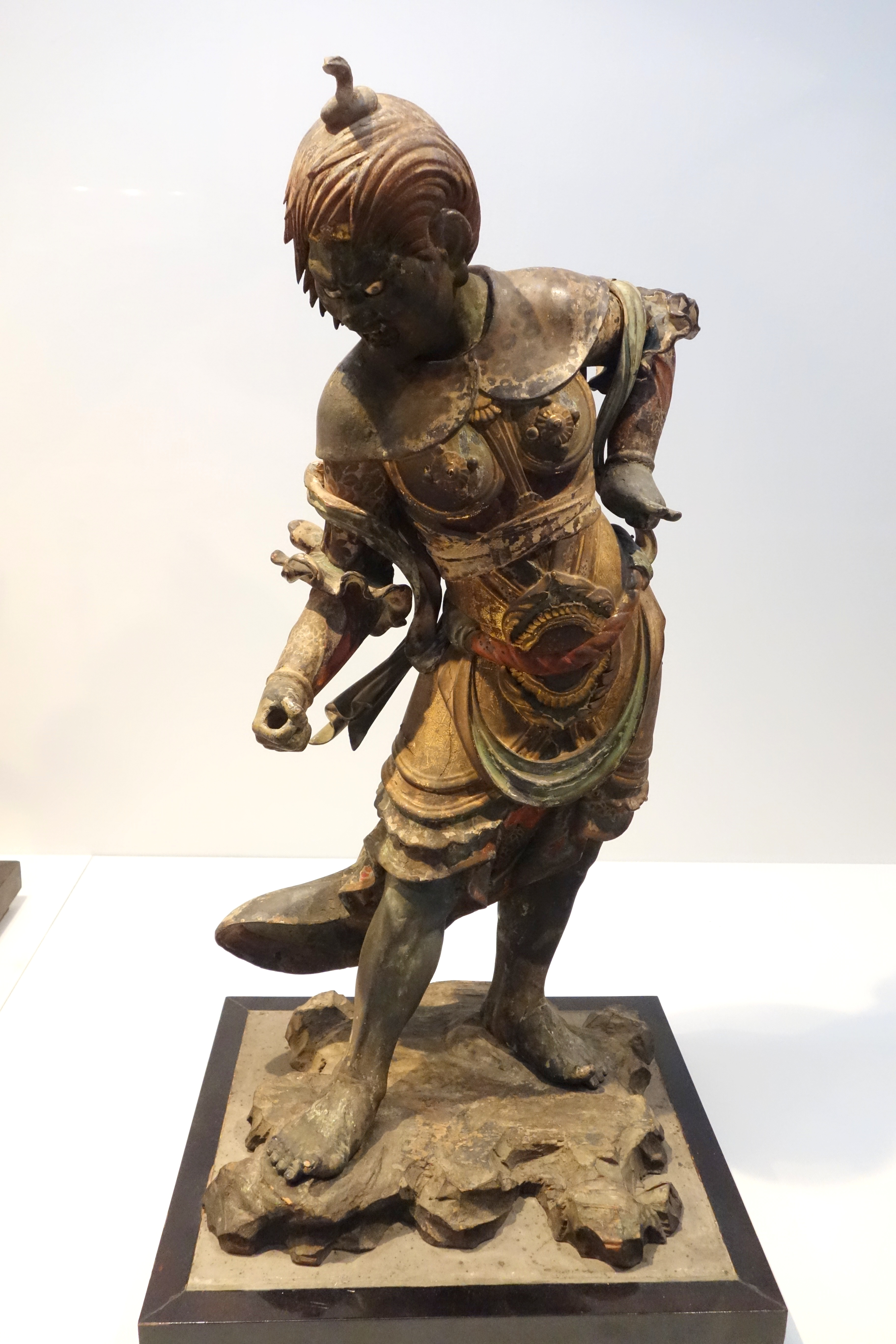 Exhibit in the Tokyo National Museum, Tokyo, Japan. This artwork is old enough so that it is in the public domain.